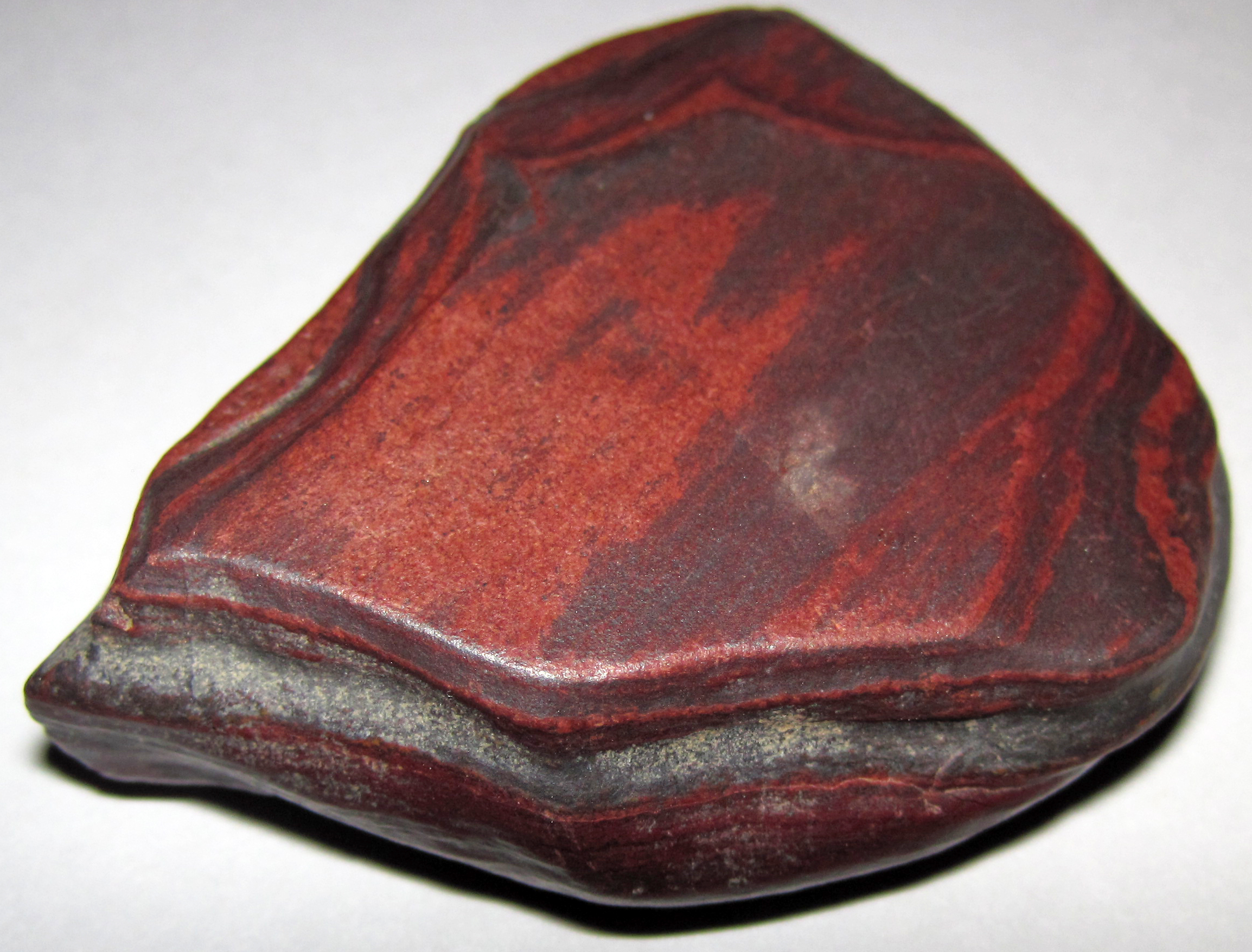 BIF ventifact (hematite-rich banded iron formation, Archean; Ferris Dune Field, Windy Gap, Wyoming, USA)